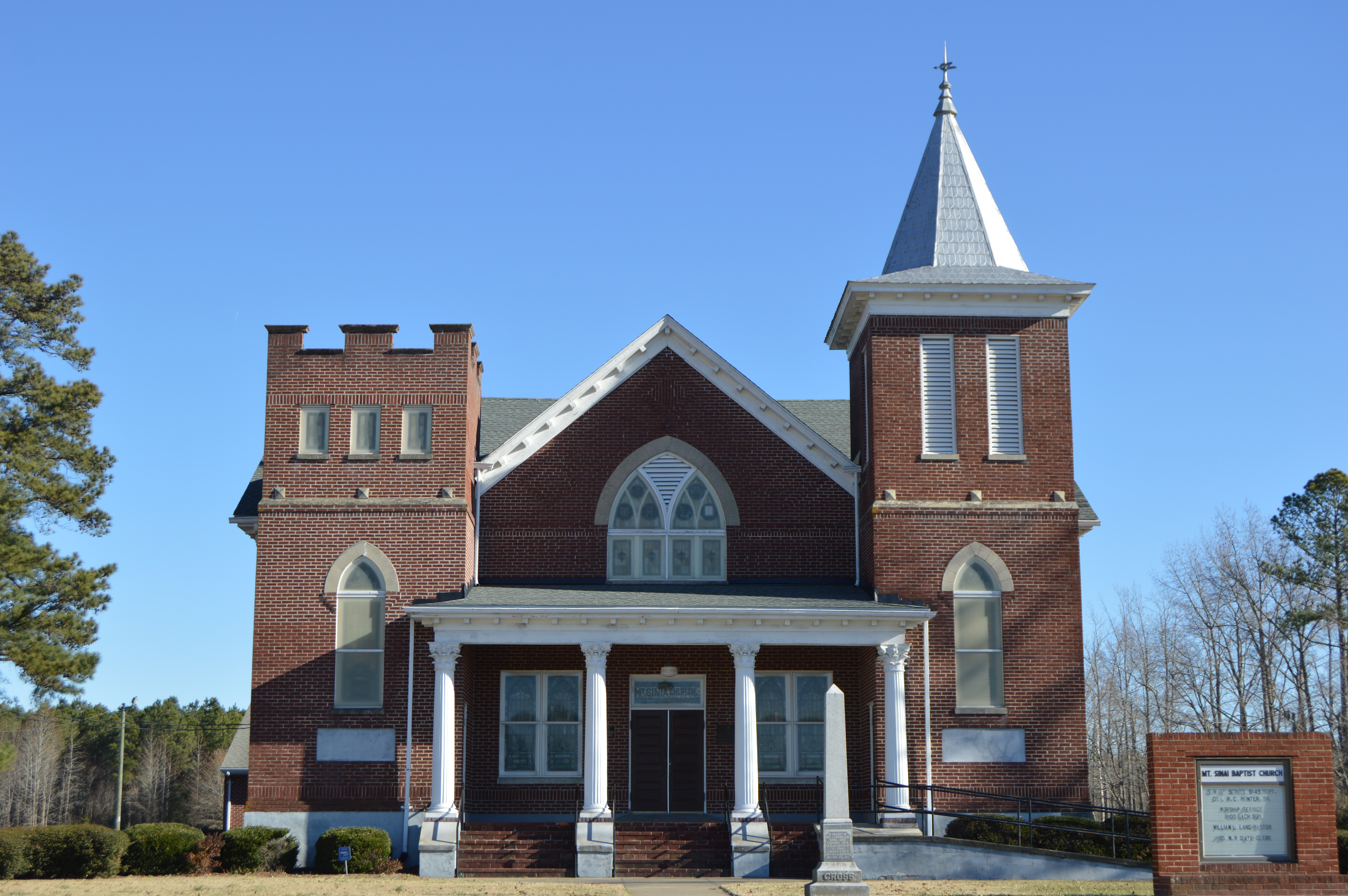 Front of Mt. Sinai Baptist Church, located at 6100 Holy Neck Road in Suffolk, Virginia, United States. Built in 1921, it is listed on the National Register of Historic Places.